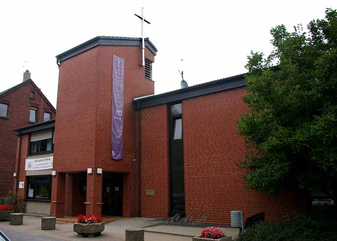 Protestant community centre Evangelisches Kultur- und Veranstaltungszentrum Krone, former church Auferstehungskirche, in Witten, Germany